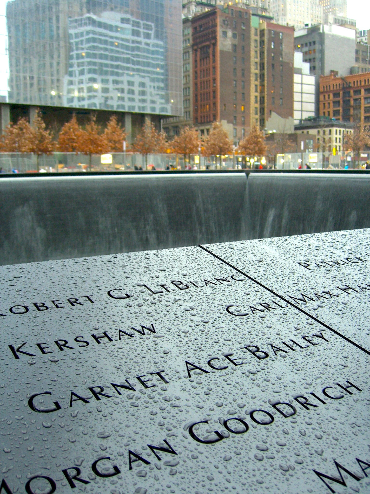 The name of Garnet Bailey is seen among those of other 9/11 victims from United Airlines Flight 175 inscribed on bronze panel S-3 of the South Pool of the National September 11 Memorial in Manhattan, on December 6, 2011. This photo was created by Luigi Novi. If you have any questions, you can contact me by sending me an email or User talk:Nightscream